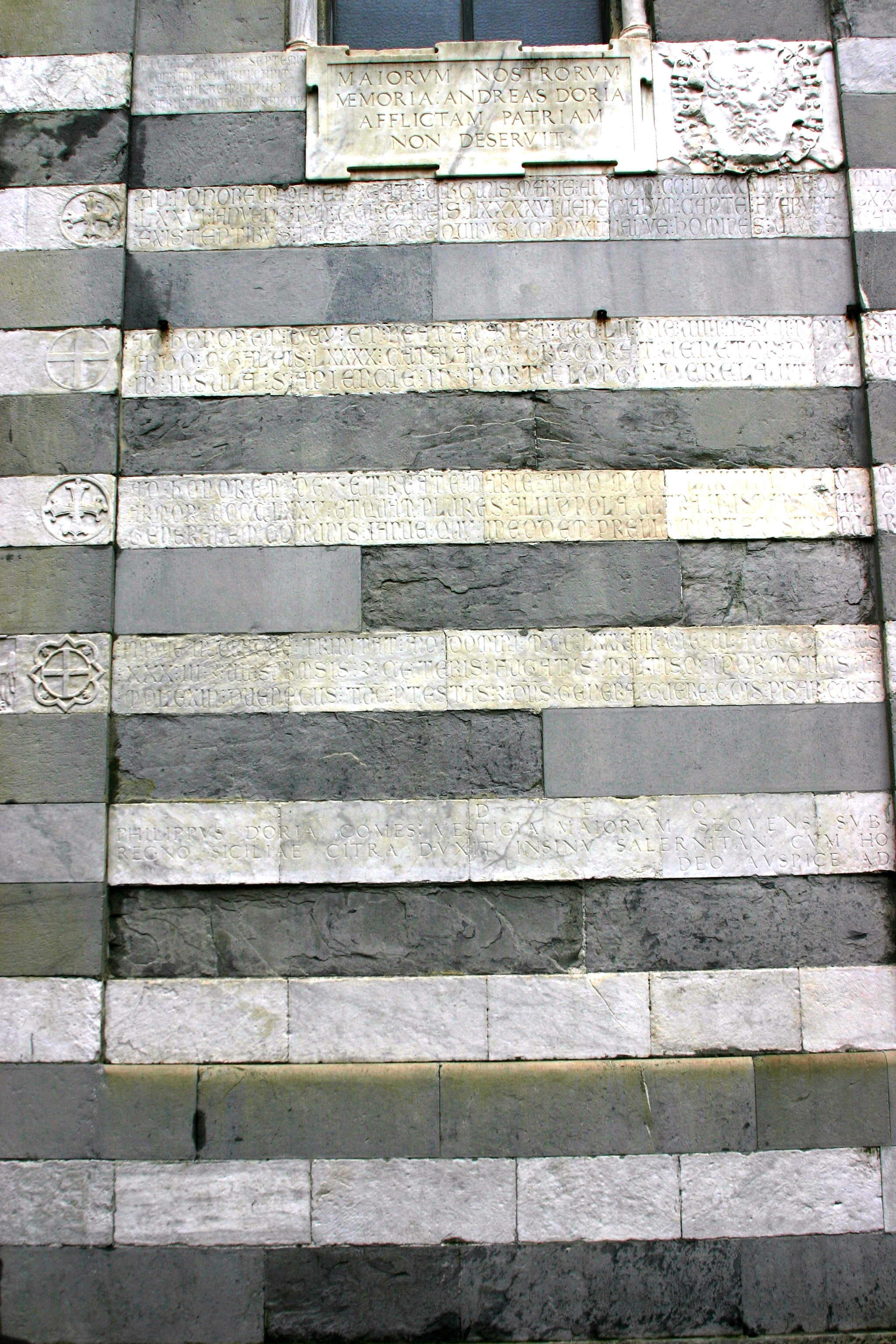 Piazza San Matteo (Genoa)